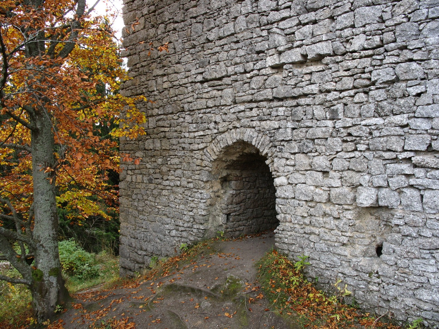 Ruin of Kunžvart Castle near Strážný, Prachatice District, Czech Republic.